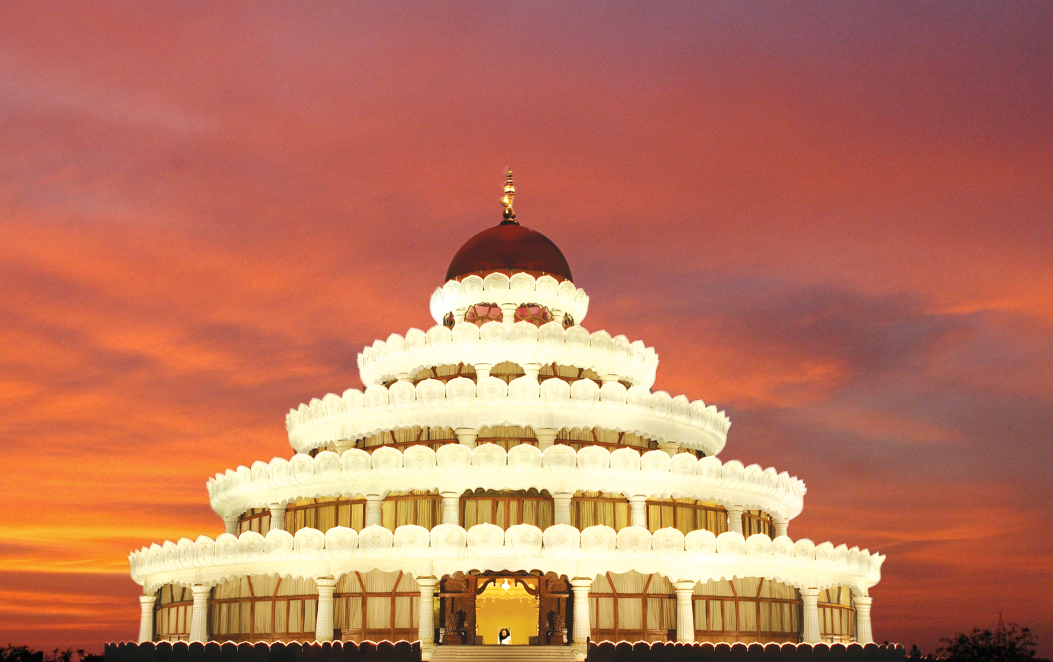 Vishalakshmi Mantap at night - main meditation hall at The Art of Living International Center, Bangalore